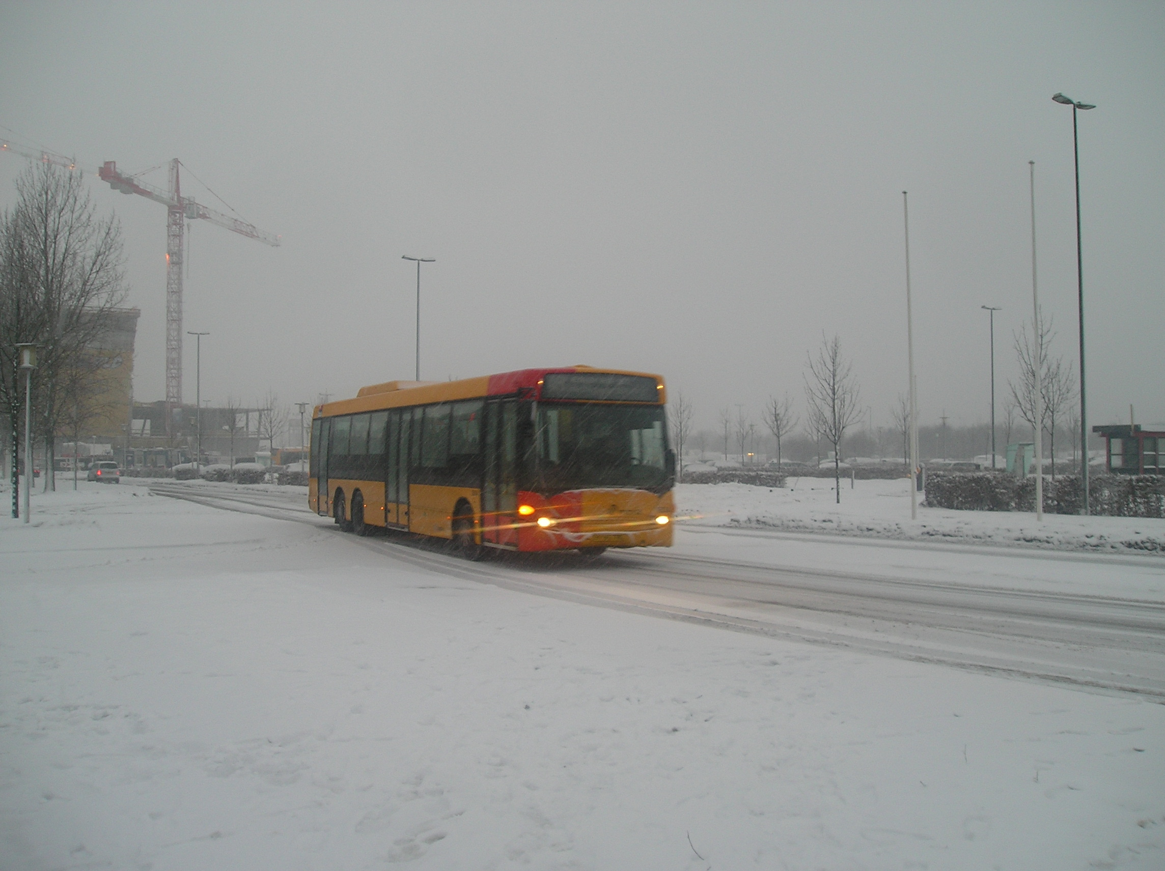 Movia bus line 4A at Bella Center in Copenhagen.